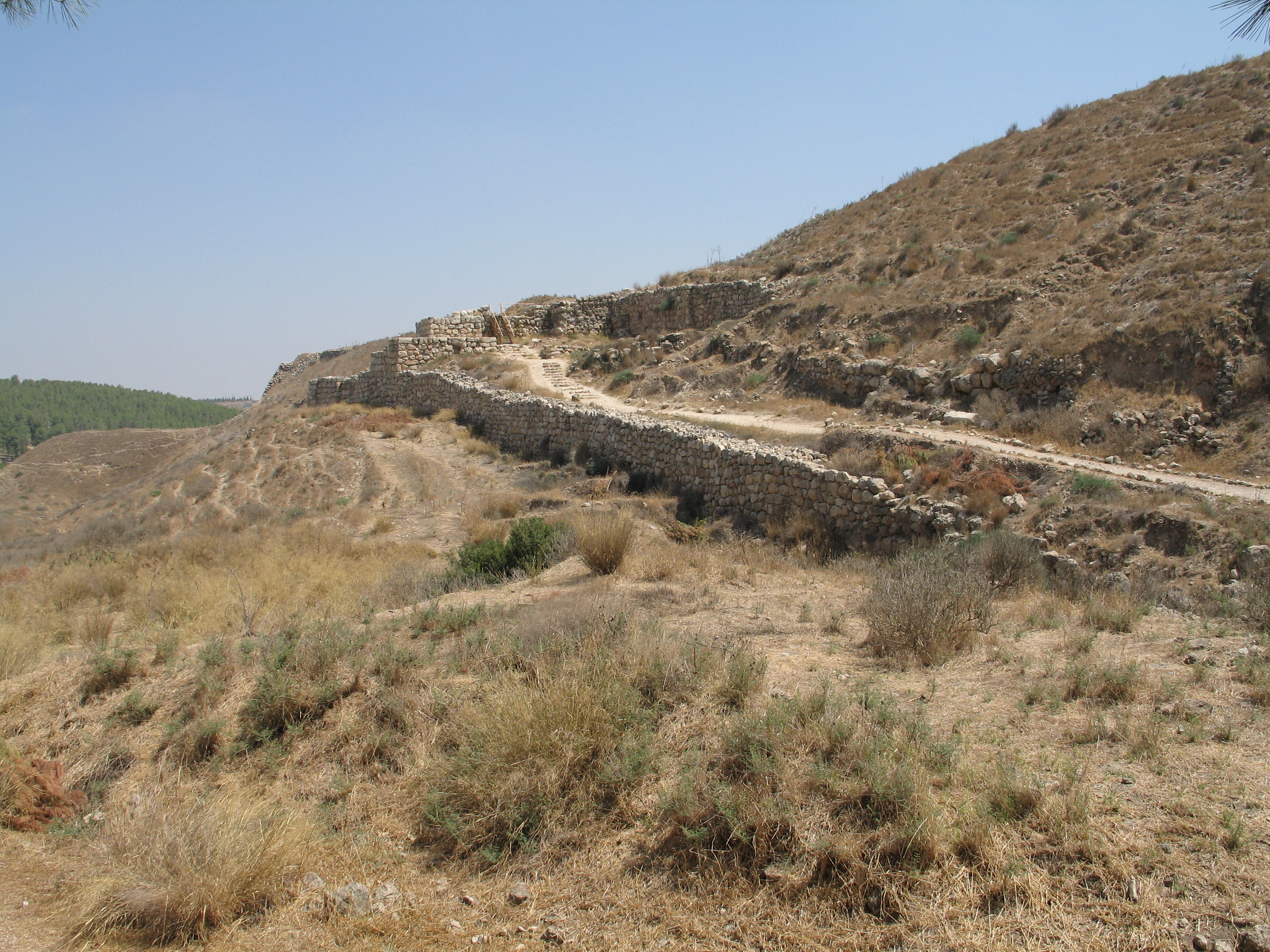 The Iron Age city gate of Lachish.